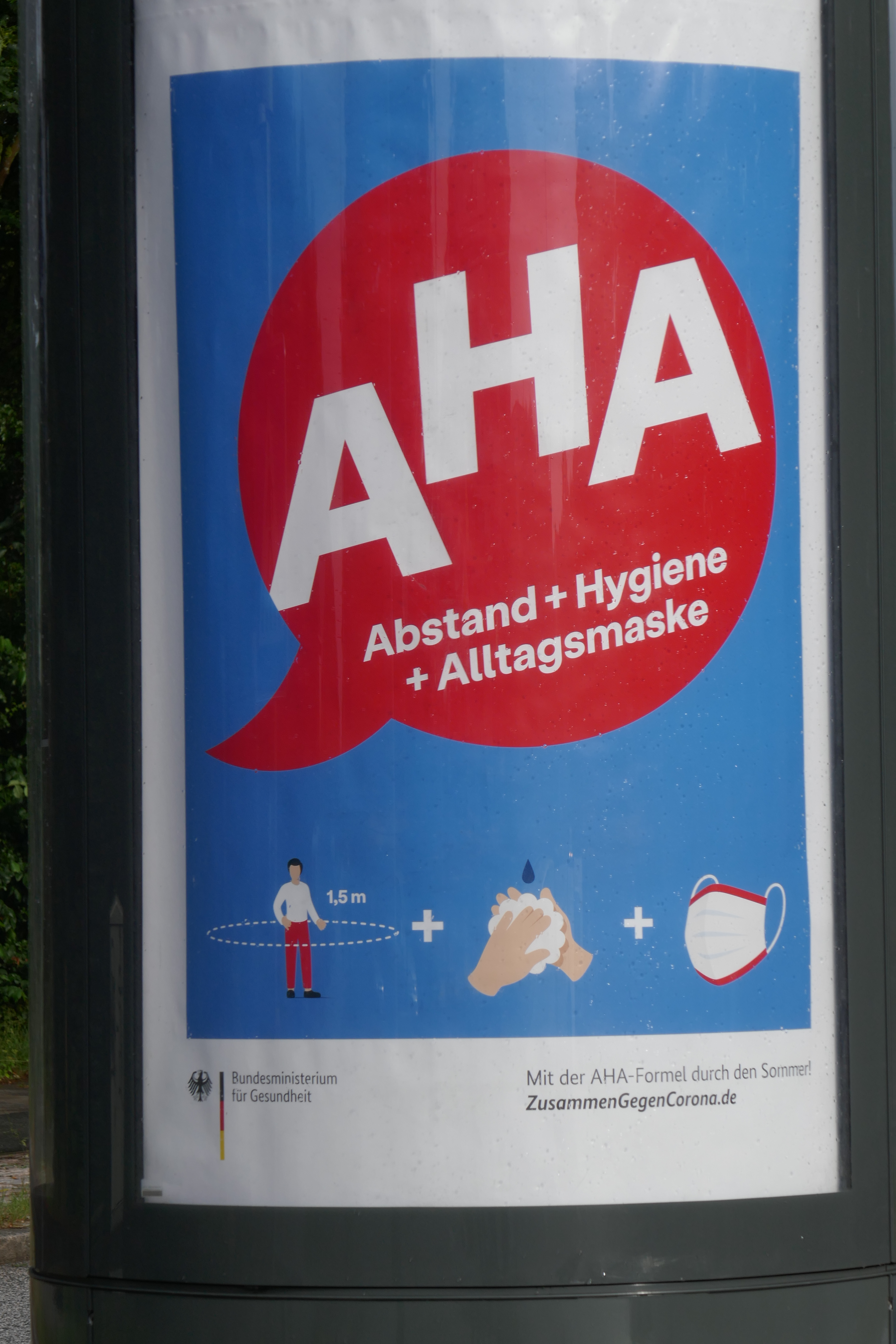 AHA poster with recommendations regarding COVID-19 from the German Ministry of Health (Bundesgesundheitsministerium). Photographed in Lübeck, Germany on July 7, 2020.